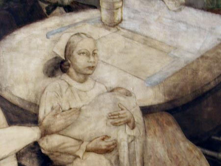 Detail of Charles Alston's 1936 painting Modern Medicine (oil on canvas) in Harlem Hospital. Modern Medicine Alston.jpg Original painting was commissioned in 1936 by the Federal Art Project, and is therefore assumed to be public domain.